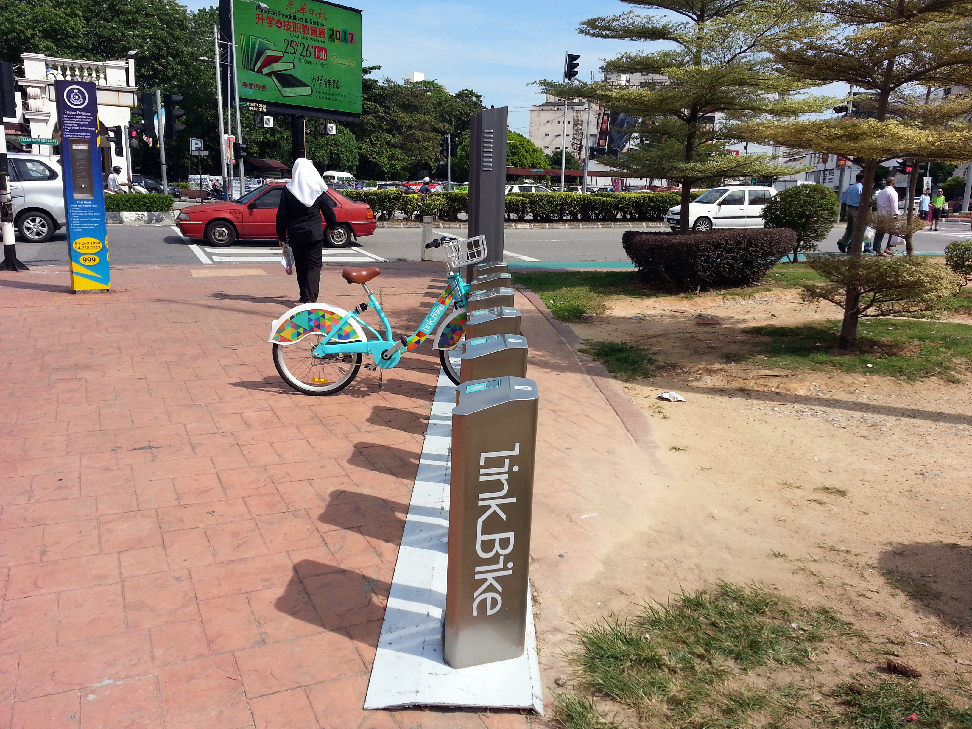 LinkBike bicycle rental service in George Town, Penang